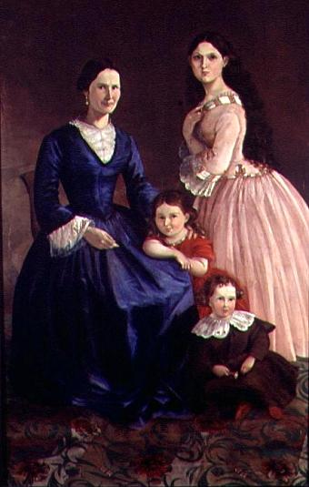 Portrait of the family of José Hilario López, President of New Granada. María Dorotea Durán Borrero (blue dress), and her three kids Lucrecia, (pink dress), Policarpa, (red dress), and Antonio Ricaurte, (infant).